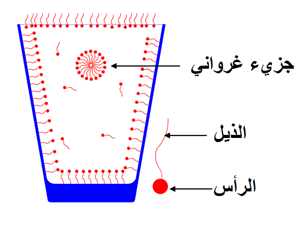 Surfactants in a glass of water and formation of micelles.